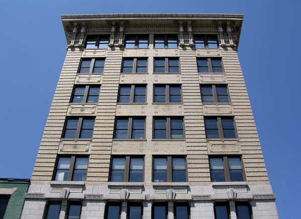 First National Bank listed on the National Register of Historic Places in Downtown, Roanoke, Virginia, USA